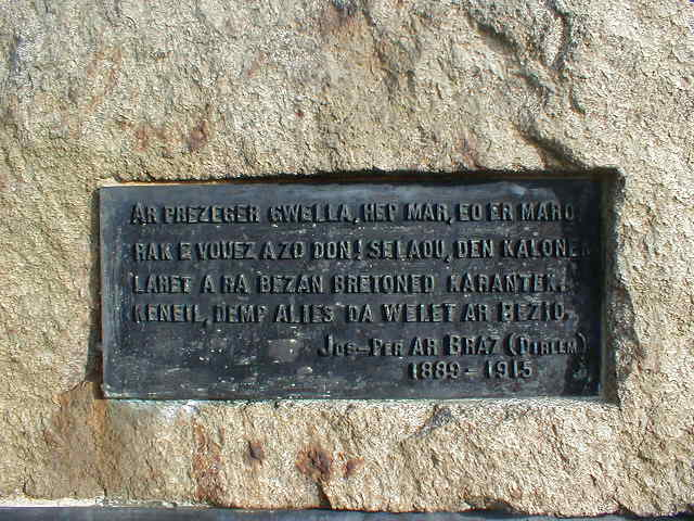 breton writing in the military cemetery of Maissin (Belgium)